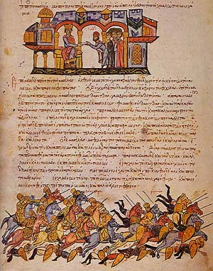 Bulgarian forces rout the Byzantines at Bulgarophygon in 896. Madrid Skylitzes, fol. 109r